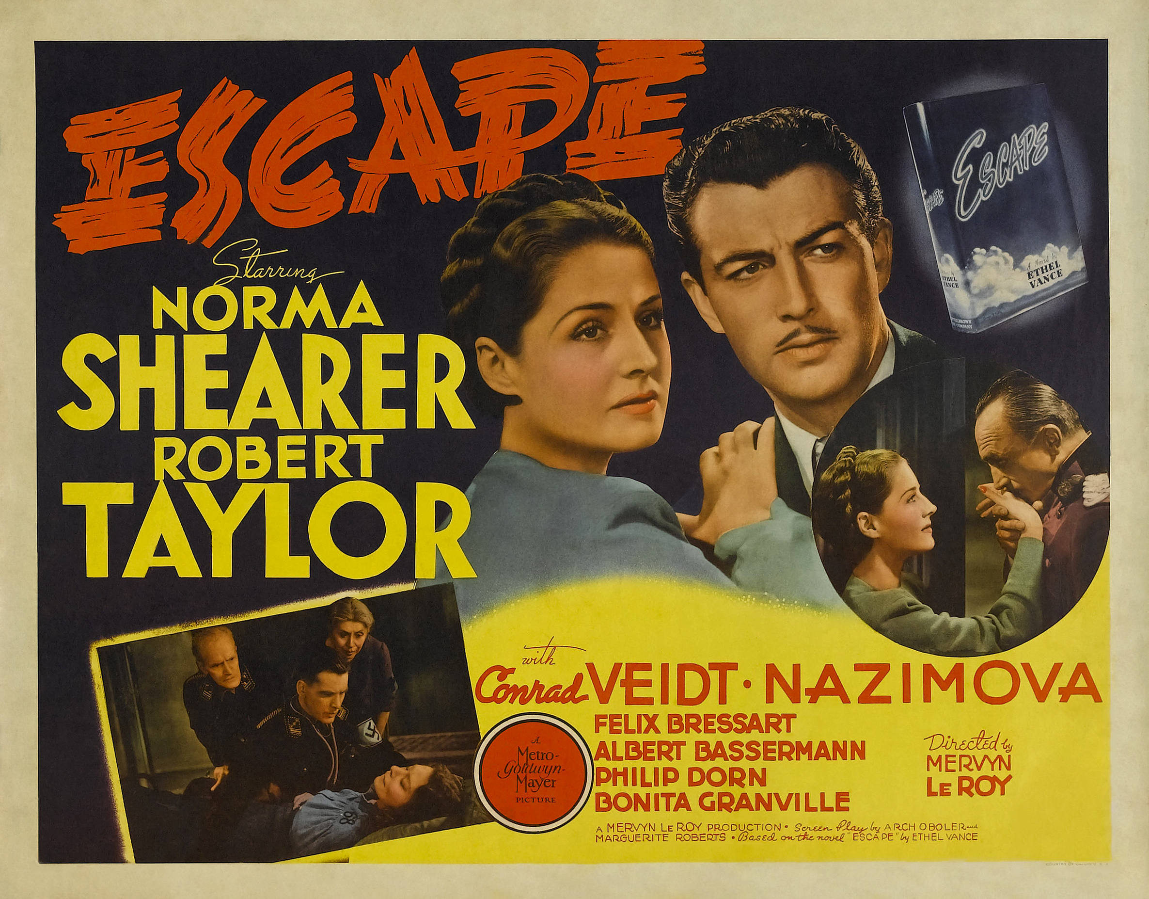 Film poster for the 1940 film Escape.